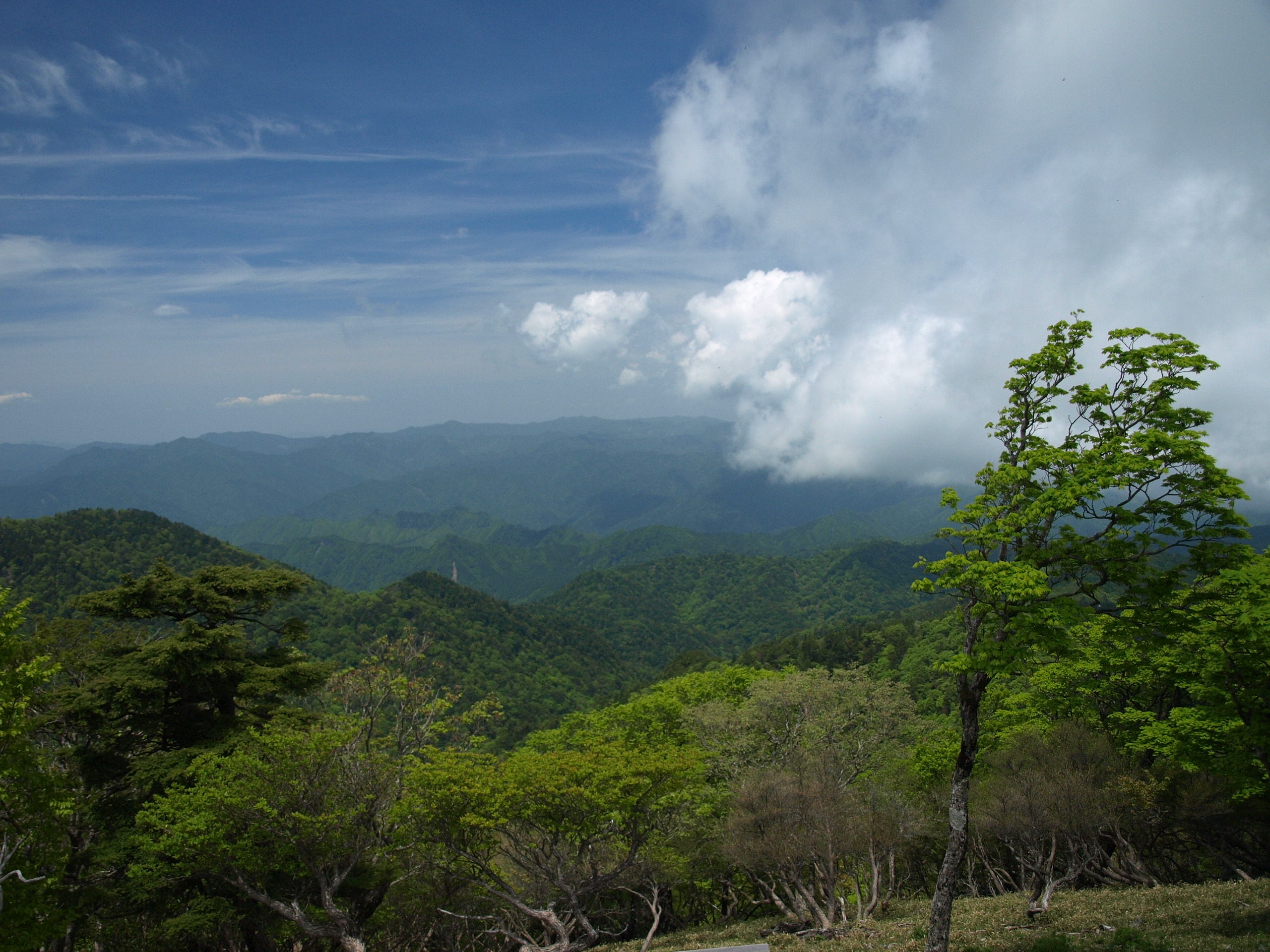 Daiko Mountains seen from south. Taken from Hidegatake which a highest peak of Mount Odaigahara. Looking north.